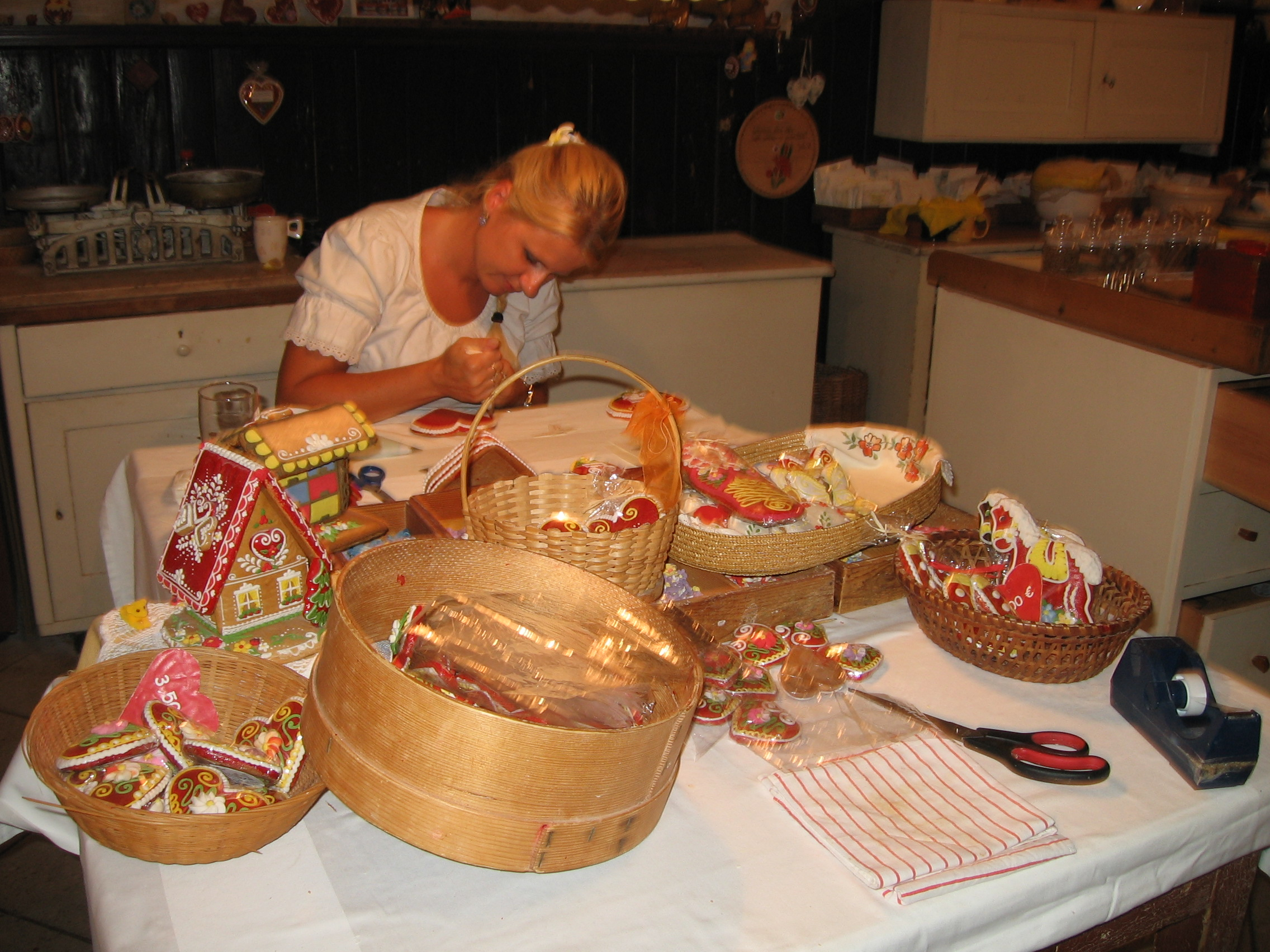 Lectar Museum in Radovljica, Slovenia